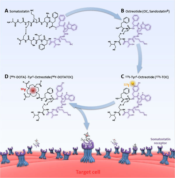 The natural somatostatin receptor ligand, the 14 amino acid peptide somatostatin (A), was abridged to the biologically more stable 8 amino acid peptide Octreotide (OC, B), which is used for the treatment of symptomatic neuroendocrine tumors. Introduction of a tyrosine into the 3rd position of the Octreotide sequence resulted in Tyr3-Octreotide (TOC, C), which allows for iodination of the tyrosine residue with the γ-emitter 123I and subsequent somatostatin receptor targeted imaging. For the use in somatostatin receptor targeted radiotherapy TOC was coupled with the chelator DOTA, which led to the study drug, the octapeptide DOTA-TOC (D).